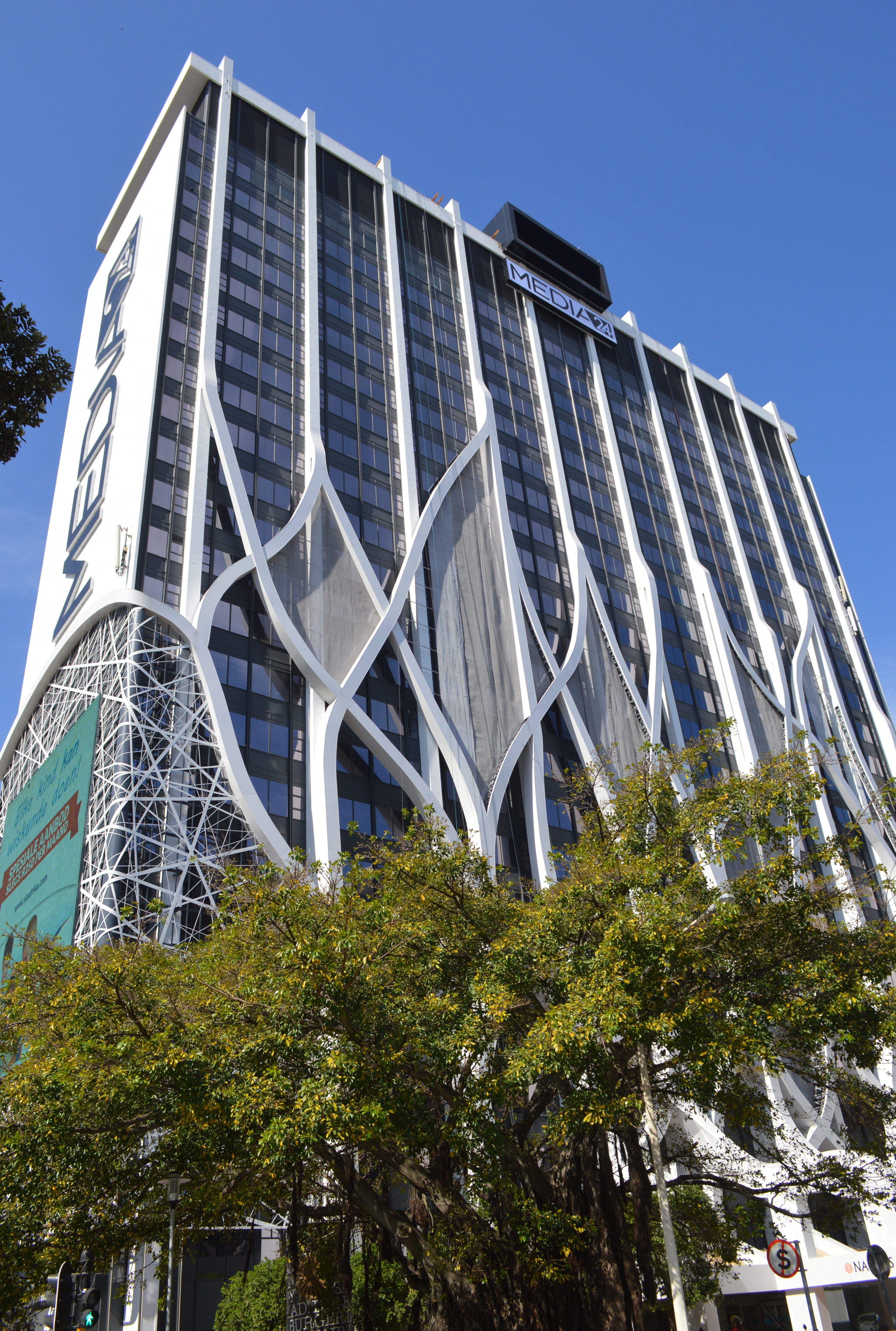 The new façade of the Media24 Centre in Cape Town